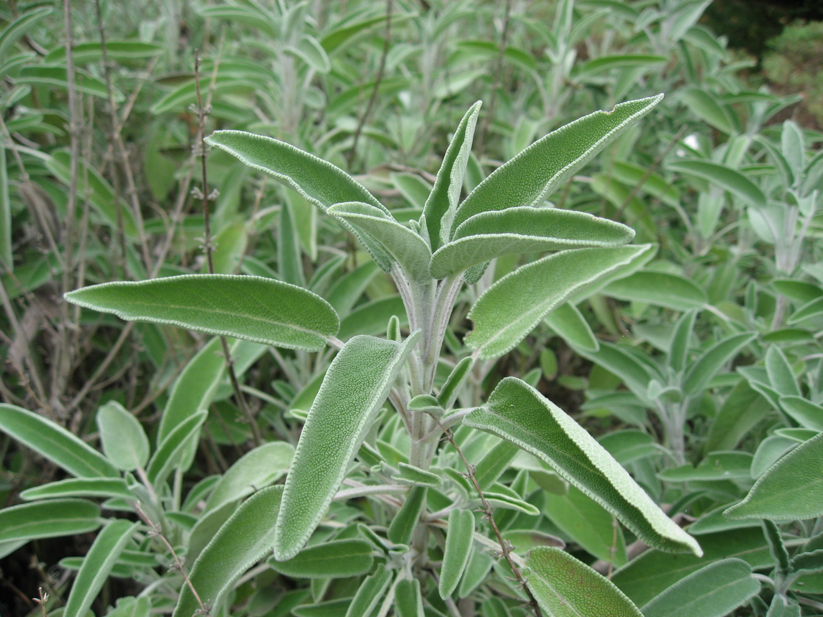 Salvia officinalis in Conservatoire National des Plantes à Parfum Map: 48° 23' 49" N 2° 28' 45" E